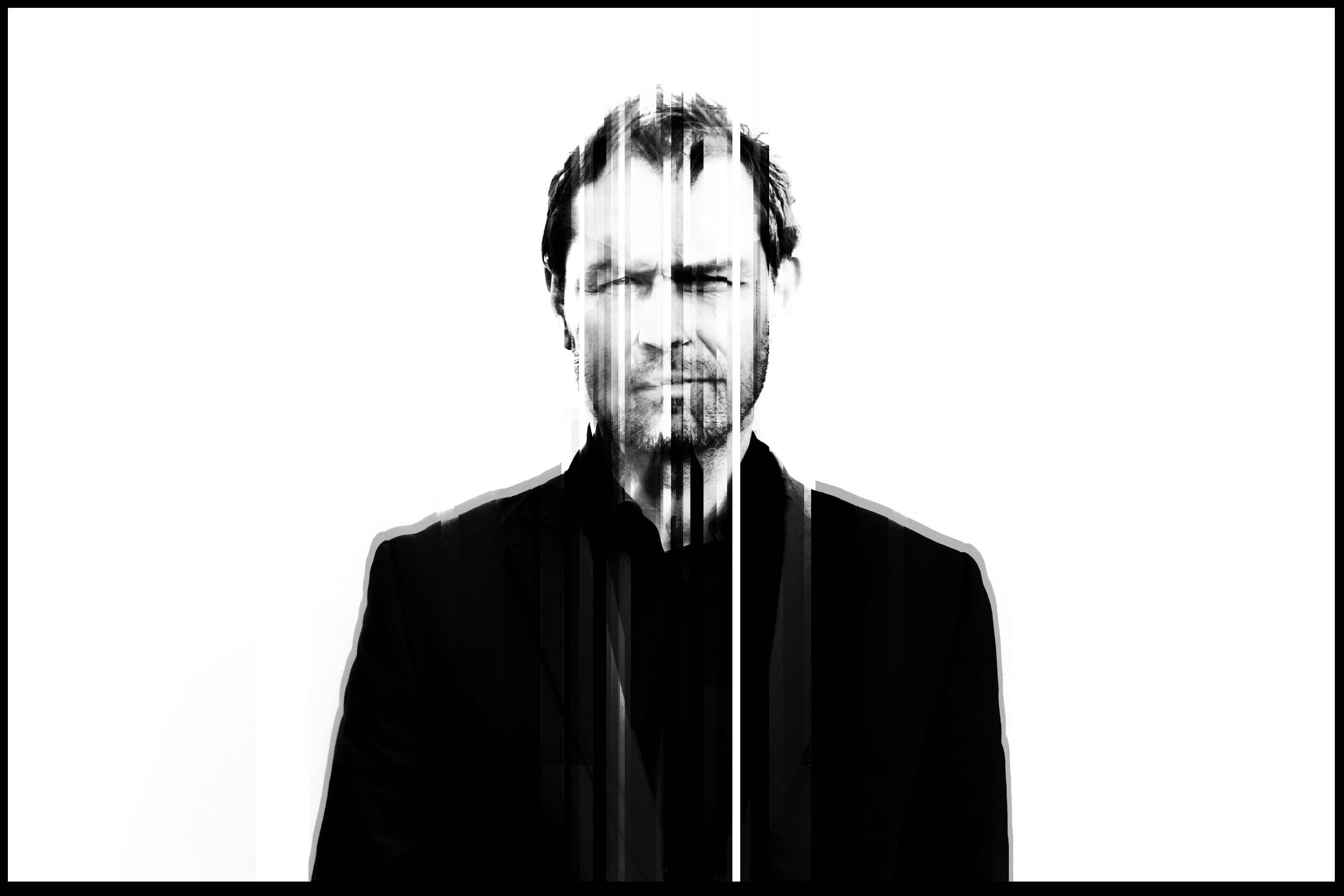 Photo by Sveinn